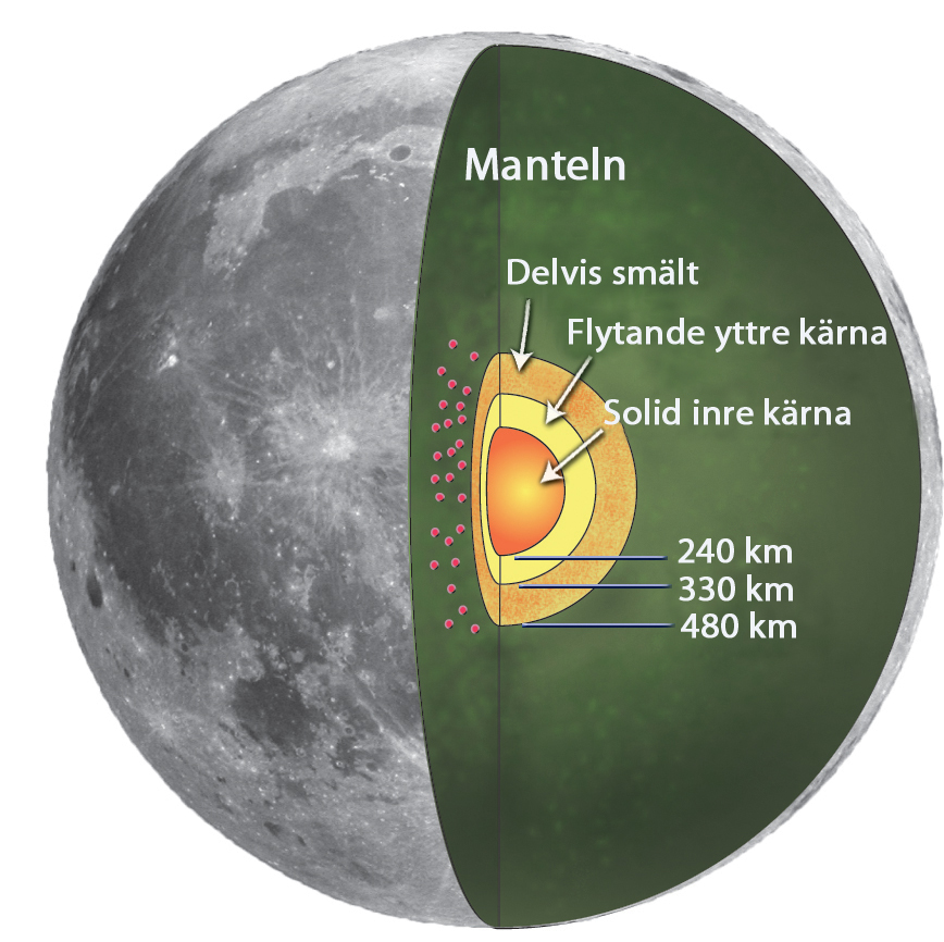 Internal structure of the Moon, in Swedish.